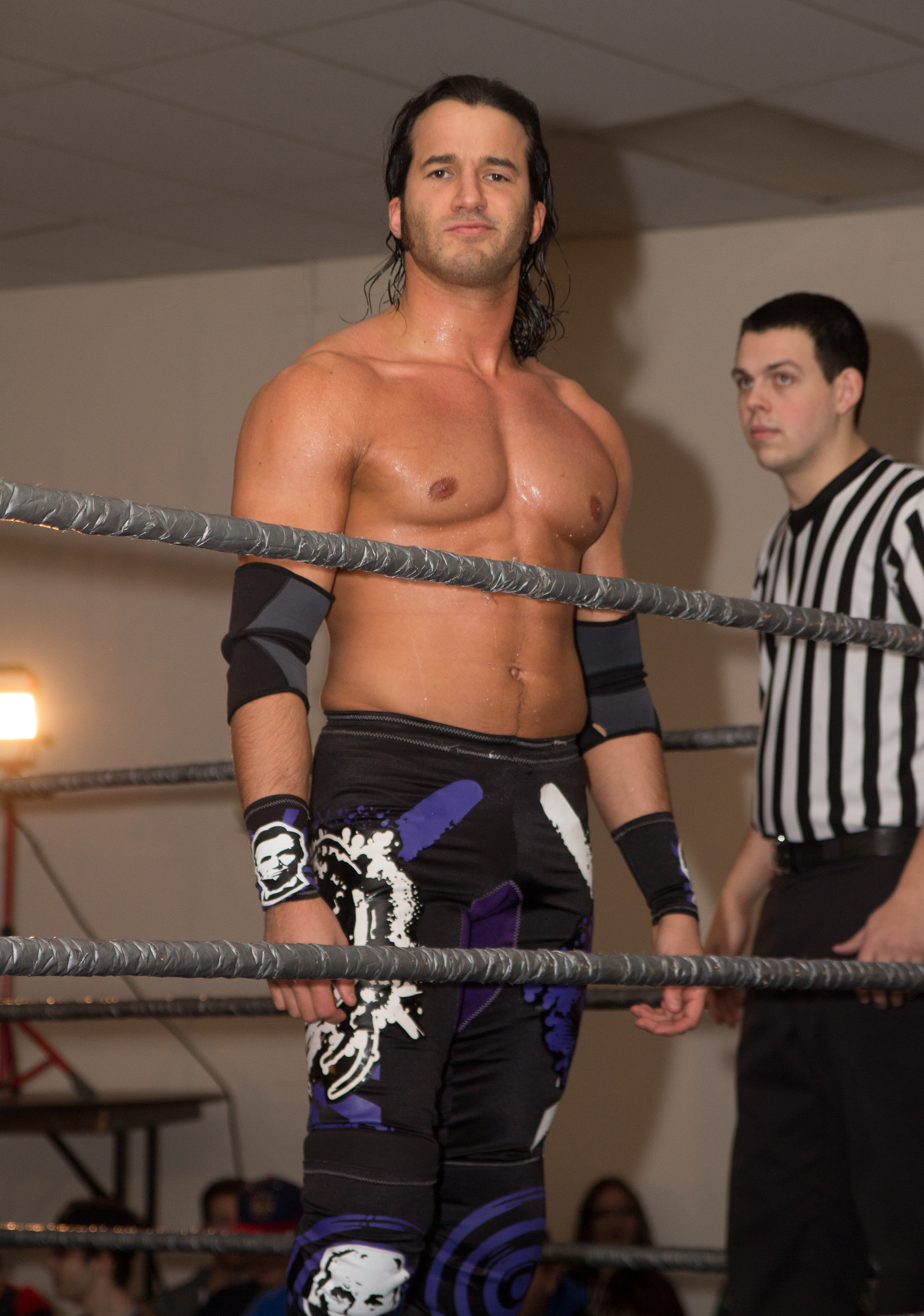 Trent Barreta at Alpha-1 Wrestling's Watch the Throne 2 show